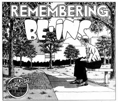 Artwork from underground comix story "Remembering Be-Ins," American Splendor #1, 1976. Story by Harvey Pekar, Art by Brian Bram.